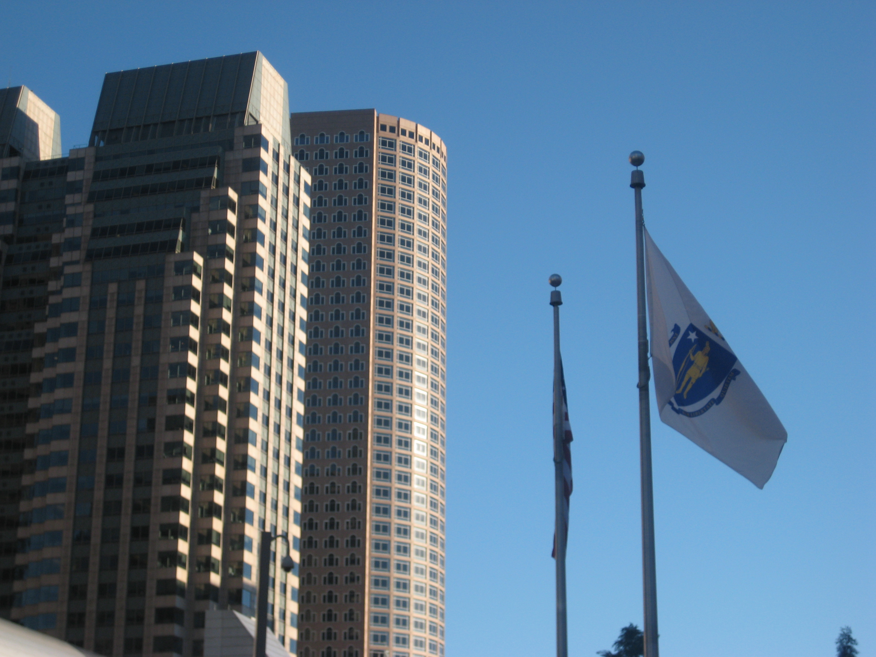 Flag of Massachusetts and office buildings in the Financial District near South Station in Boston, United States. October 2007 photo by John Stephen Dwyer